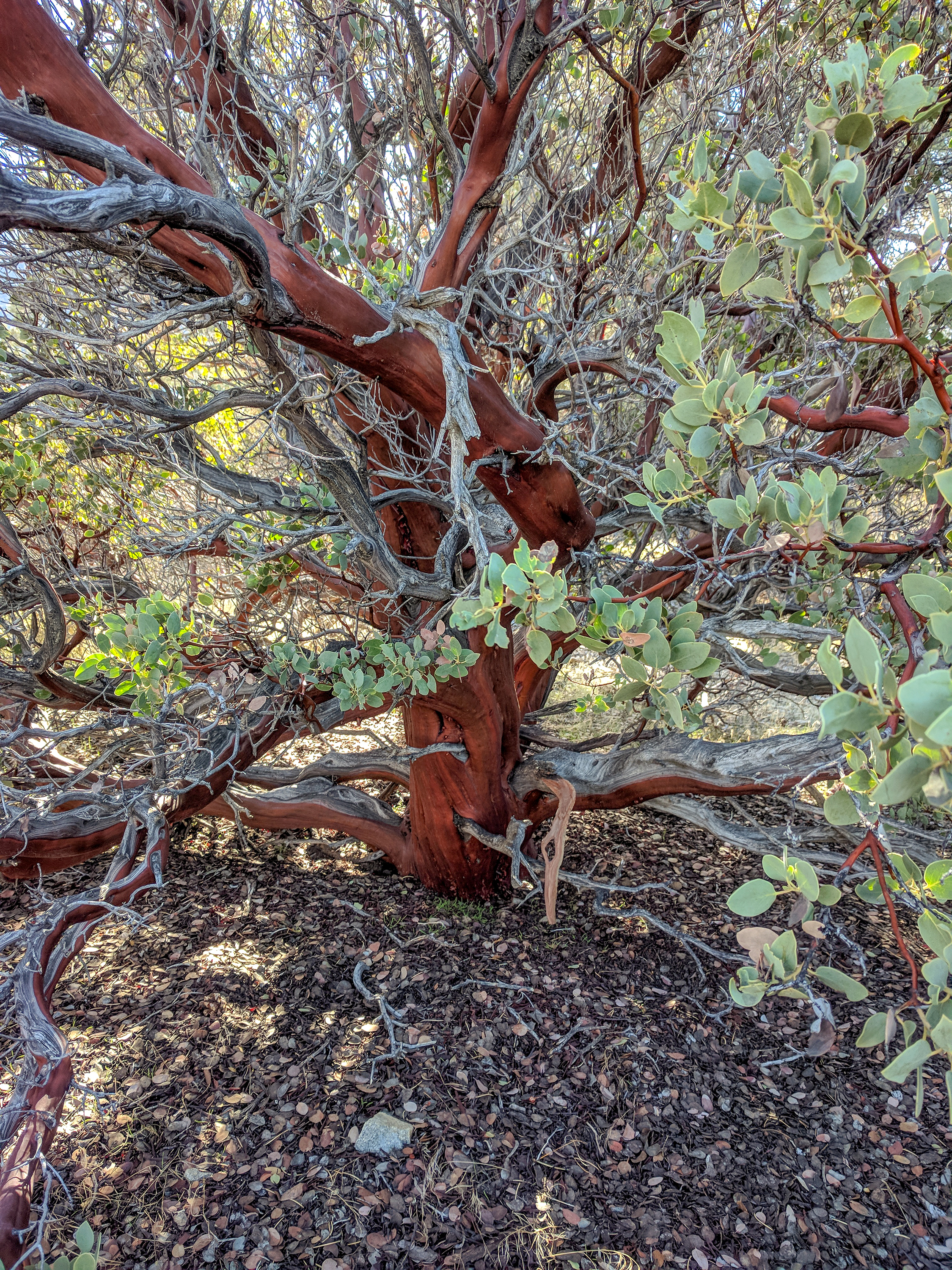 The Devils Punchbowl Natural Area is a Los Angeles County park, also within the San Gabriel Mountains National Monument and Angeles National Forest. It is located south of the Pearblossom Highway (CA Route 138), near the towns of Littlerock and Pearblossom. The primary attractions of the park are its geological formations, including the Punchbowl Formation of the Neogene period. The Punchbowl is a deep canyon categorized as a plunging syncline: a v-shaped folding of the earth's strata caused by compression. The mountain peaks above the park are 8,000 feet in elevation, compared to the park's Nature Center at 4,740 feet above sea level. The Punchbowl Canyon is 300 feet deep at the vista point. The peculiar uptilted rock formations found in the area are layers of sedimentary rocks formed long ago by water depositing loose material in horizontal layers. Later they were squeezed into their present, steeply tilted form by ongoing uplift action along the Punchbowl and Pinyon Faults and by pressures along the San Andreas Fault. The Punchbowl Fault is to the south of the rock formation, while the Pinyon and San Andreas Faults are to the north.